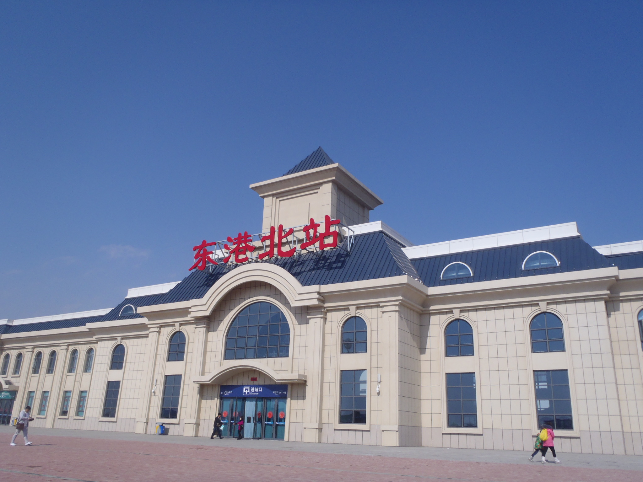 Donggang North Station on Dandong-Dalian Railway, in Liaoning Province, China